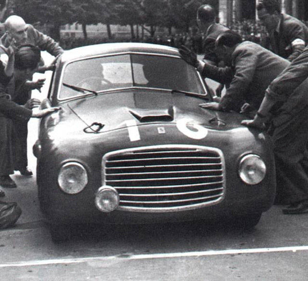 Entry #16 and the WINNER at the Mille Miglia on 2 May 1948 was a Ferrari 166 S Coupe by Allemano s/n 003S driven by Biondetti and co-driver Giuseppe Navone.